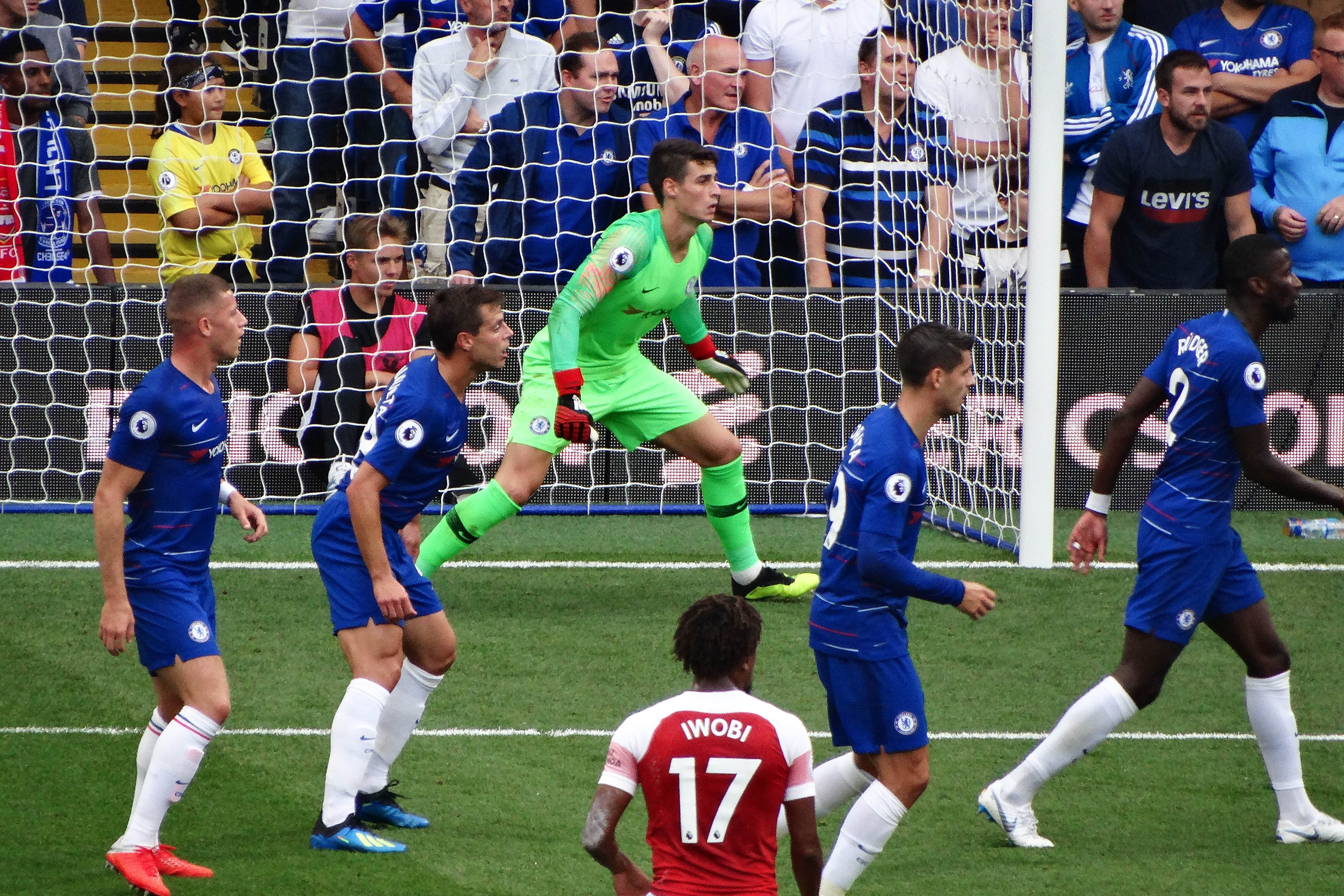 Chelsea v Arsenal